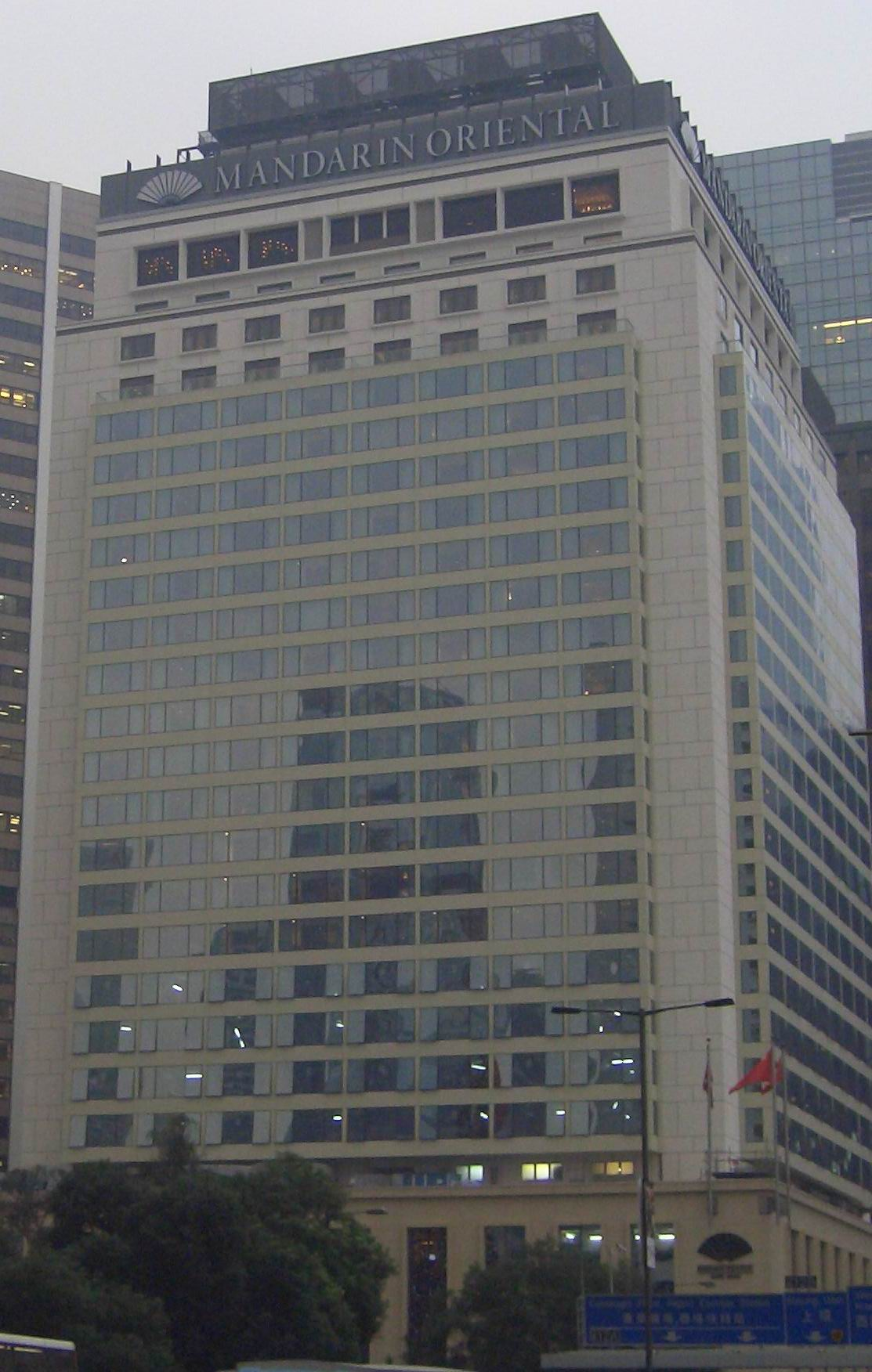 View of the whole Mandarin Oriental, Hong Kong